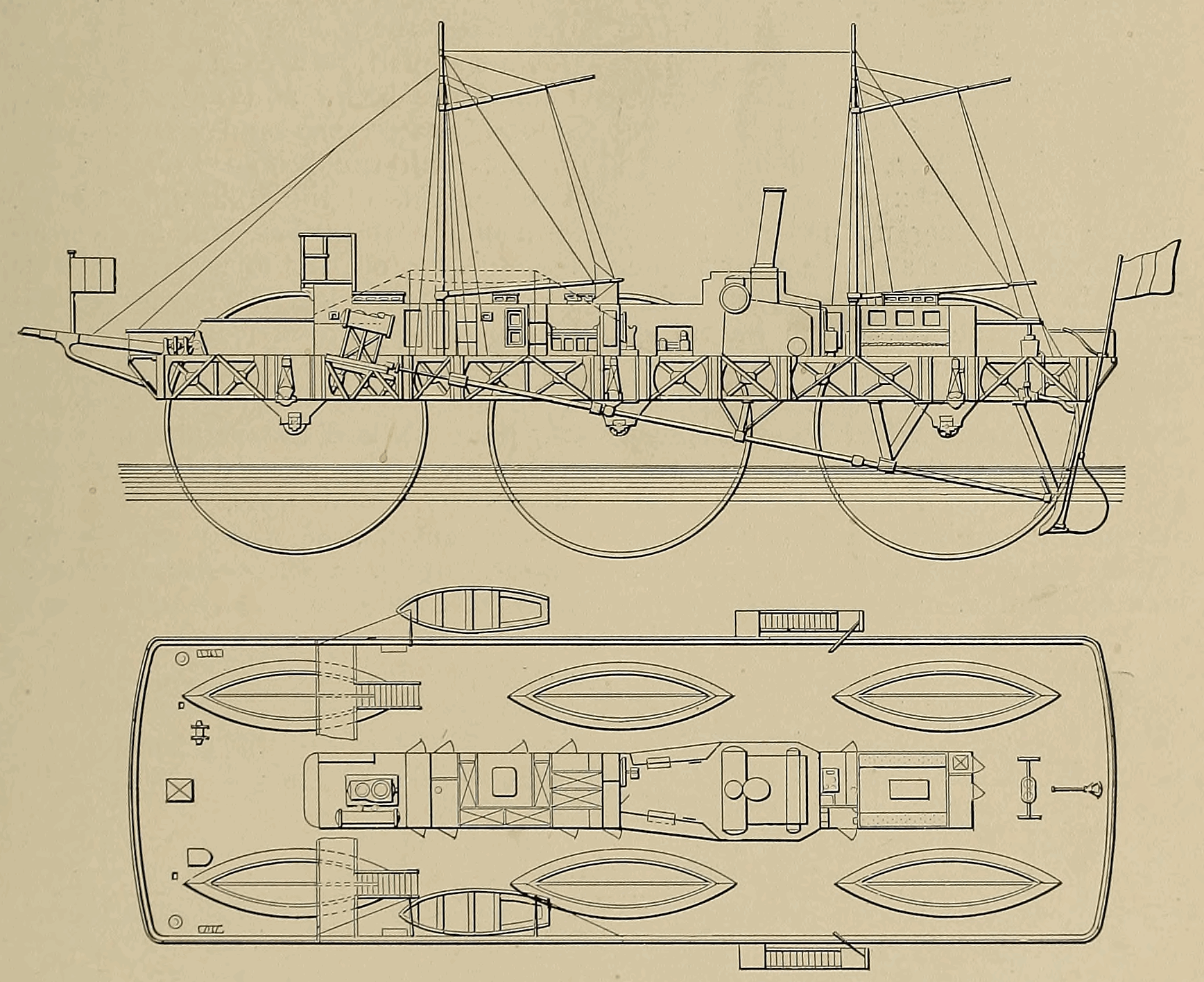 Cassier's Magazine of February 1897 had an article on page 279-284, written by Johannes H. Cuntz and titled The Bazin Roller Boat. It was accompanied by a number of illustrations, including this plan of the ship, on page 281.